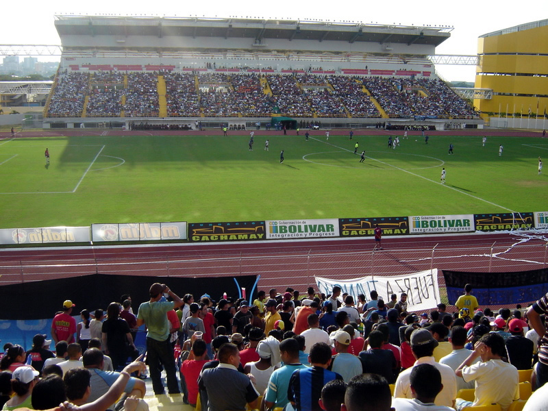 League match between AC Mineros de Guayana and Caracas FC